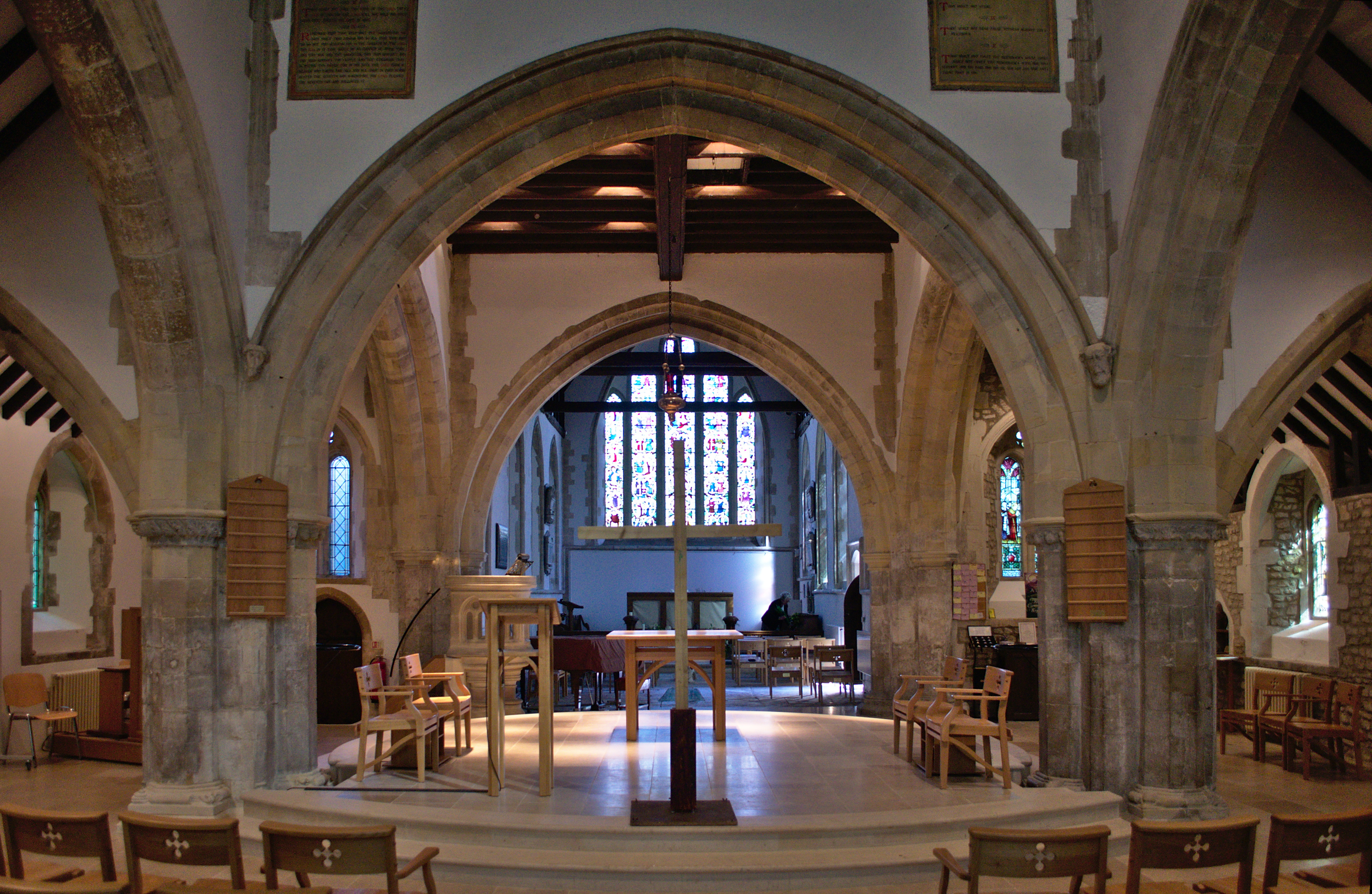 Inside the nave of St Mary's parish church, South Hayling, Hampshire, looking east through the crossing to the chancel